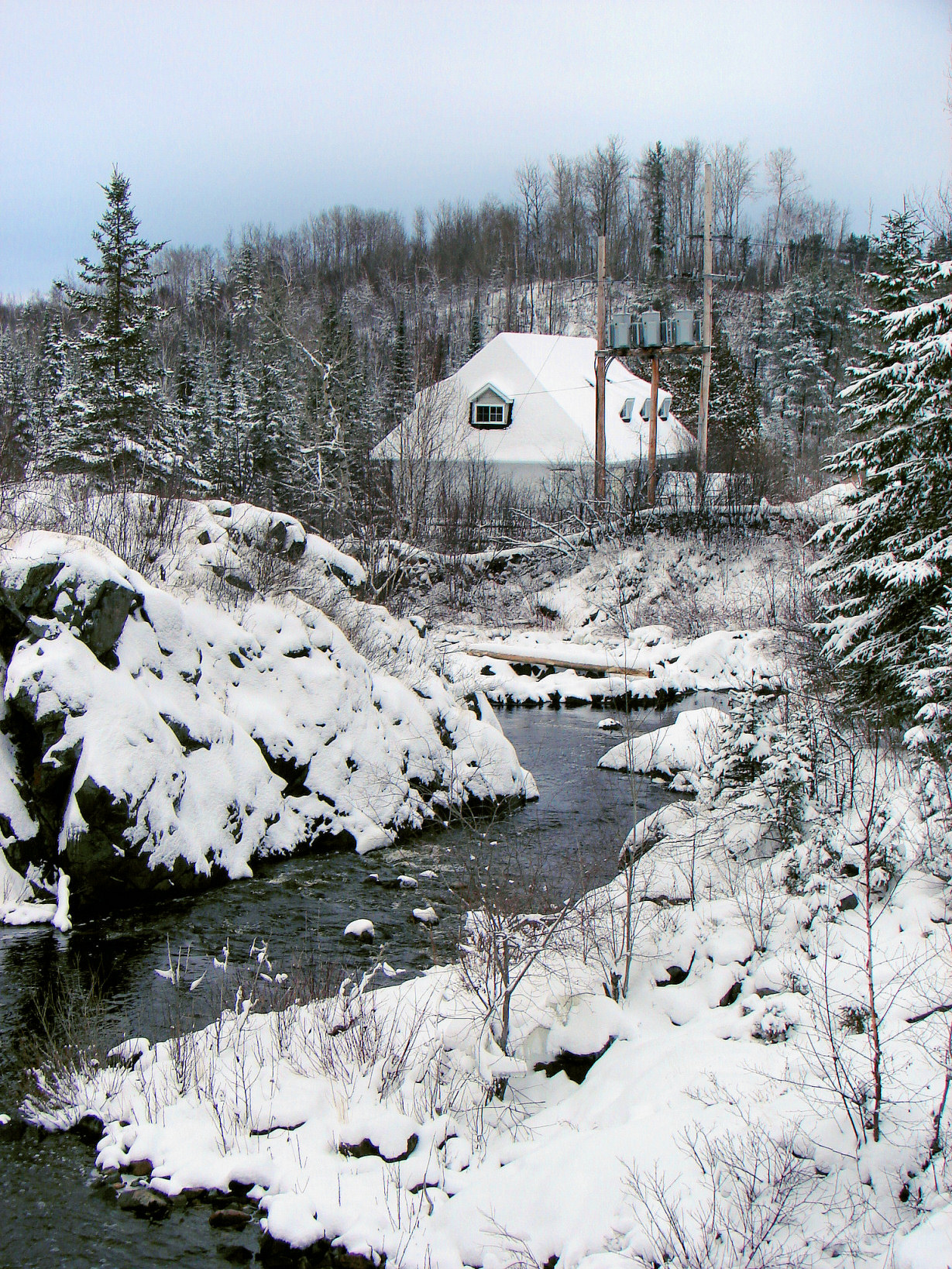 Historic power house in Charlton (municipality Charlton and Dack), Ontario, Canada